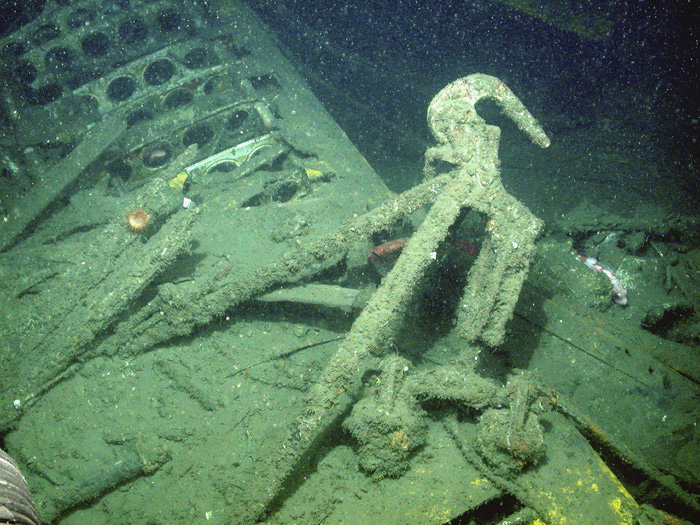 the sky hook located at the center of the Curtiss Sparrowhawk F9C-2 biplanes. During flight, the pilot would position the aircraft below the USS Macon’s hanger where a trapeze was lowered to hook the plane. Sparrowhawk pilots were nicknamed the “men on the flying trapeze.”